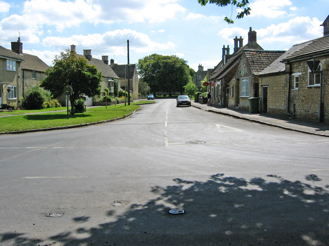 Market Overton, Rutland. Main Street: small stone cottages, large houses and the village post office and shop